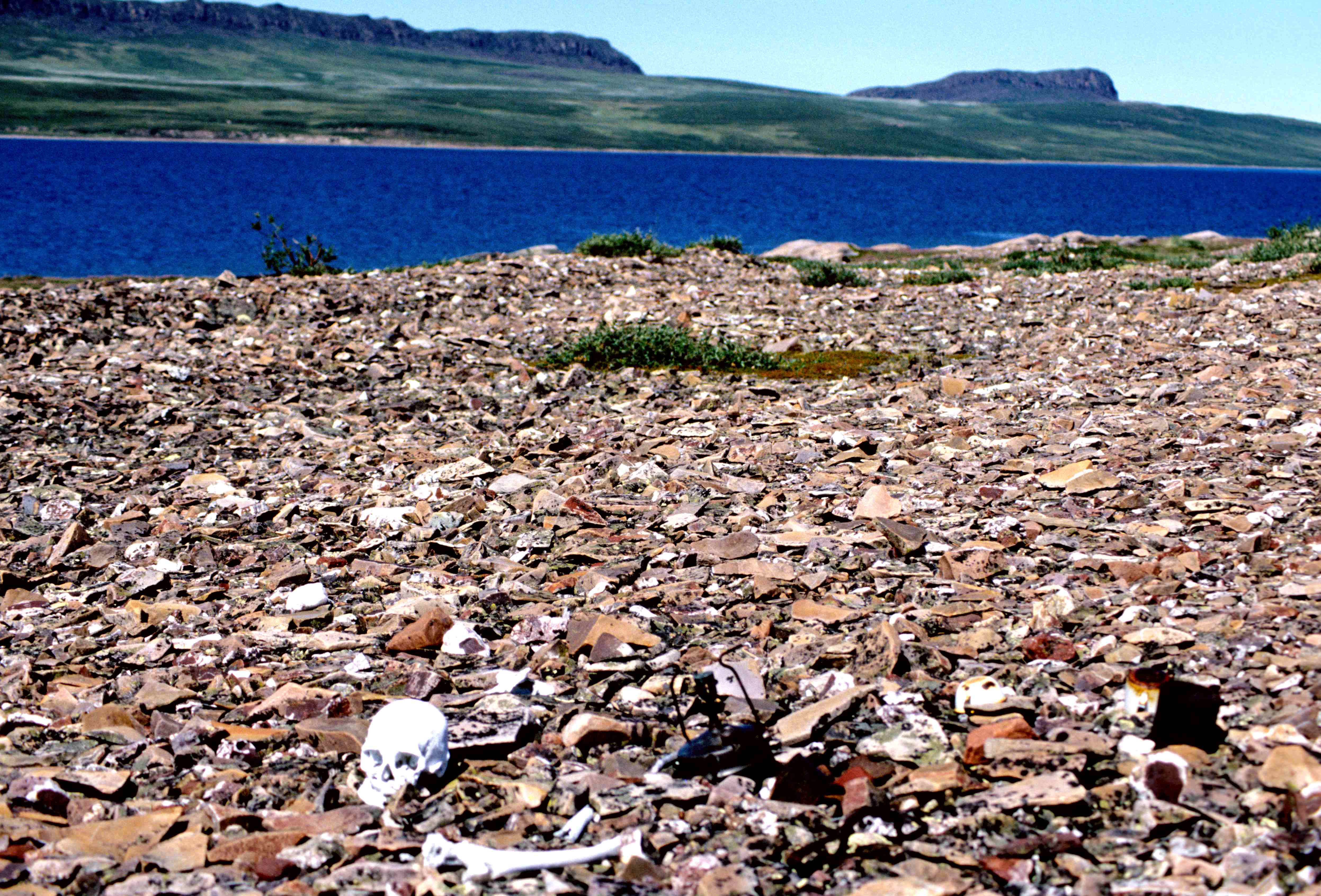 Bathurst Inlet community